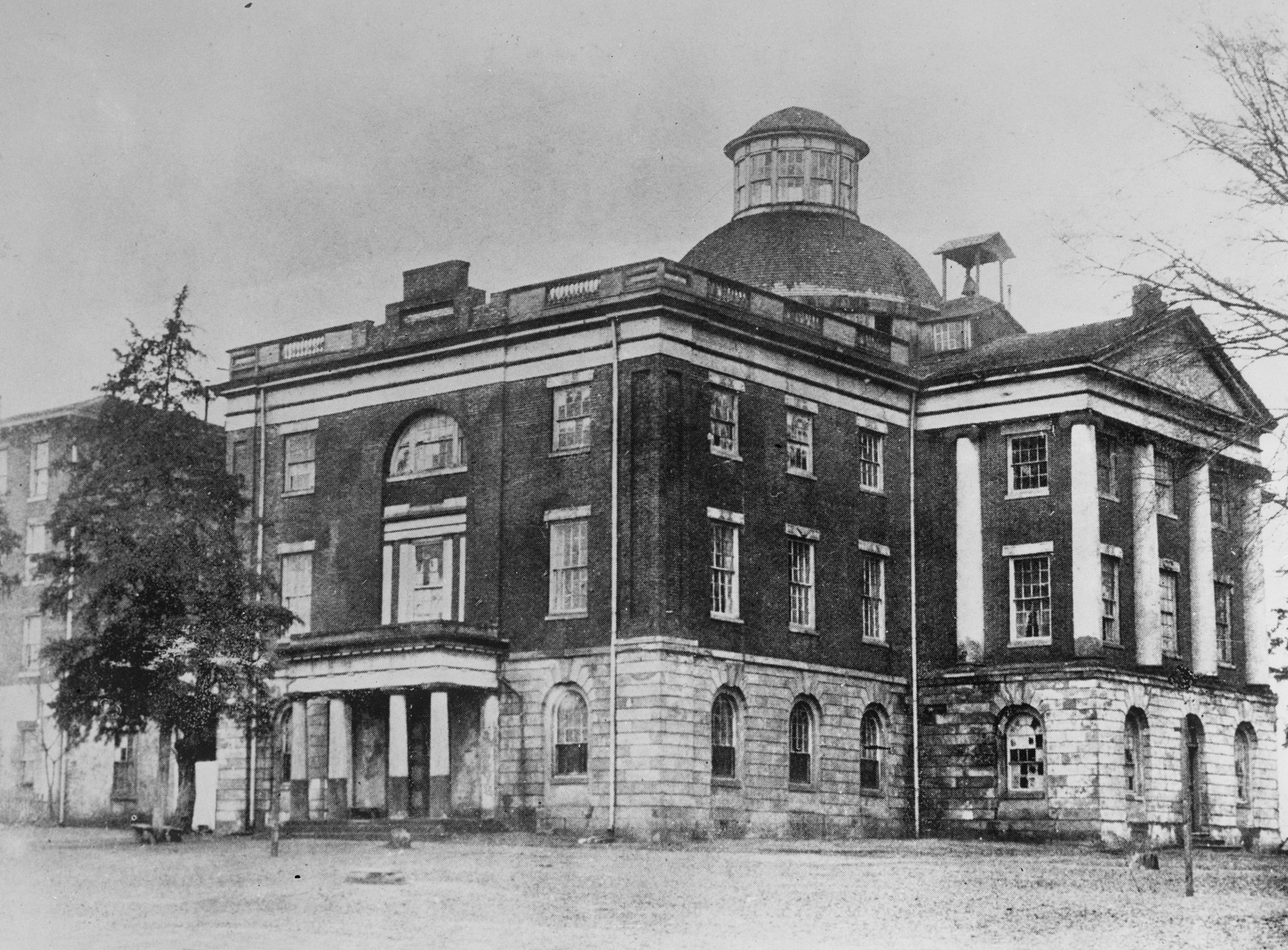 Per HABS datasheet: Old Alabama State Capitol, Broad Street, Tuscaloosa, Tuscaloosa County, AL. Significance Alabama State Capitol, 1829-1846; housed Alabama Central Female College after that date. From 1825 to 1846, Tuscaloosa served as capital of Alabama. State legislators moved the capital here due to severe flooding of the first site at Cahaba (1820-1825). Sited on a high bluff above the Warrior River at the terminus of steamboat navigation coming from the south and at the end of the Huntsville Road (called Broad St. in the 19th century and later University Boulevard) coming from the north, Tuscaloosa seemed well-suited for this choice. In 1827, stone foundations were laid and construction of the $100,000 classically styled capitol begun. William Nichols, the architect who designed the University of Alabama's early campus, also drew plans for this building. Complete with cupola visible throughout the early city and from the river, the Capitol opened its doors in 1829. In 1846, legislators again moved the capital to Montgomery, the geographic center of the state. The Capitol Building at Tuscaloosa burned in 1923. Update Some of the ruins remain within Capitol Park, located west of 28th Avenue and north of 6th Street, at the westernmost terminus of University Boulevard.